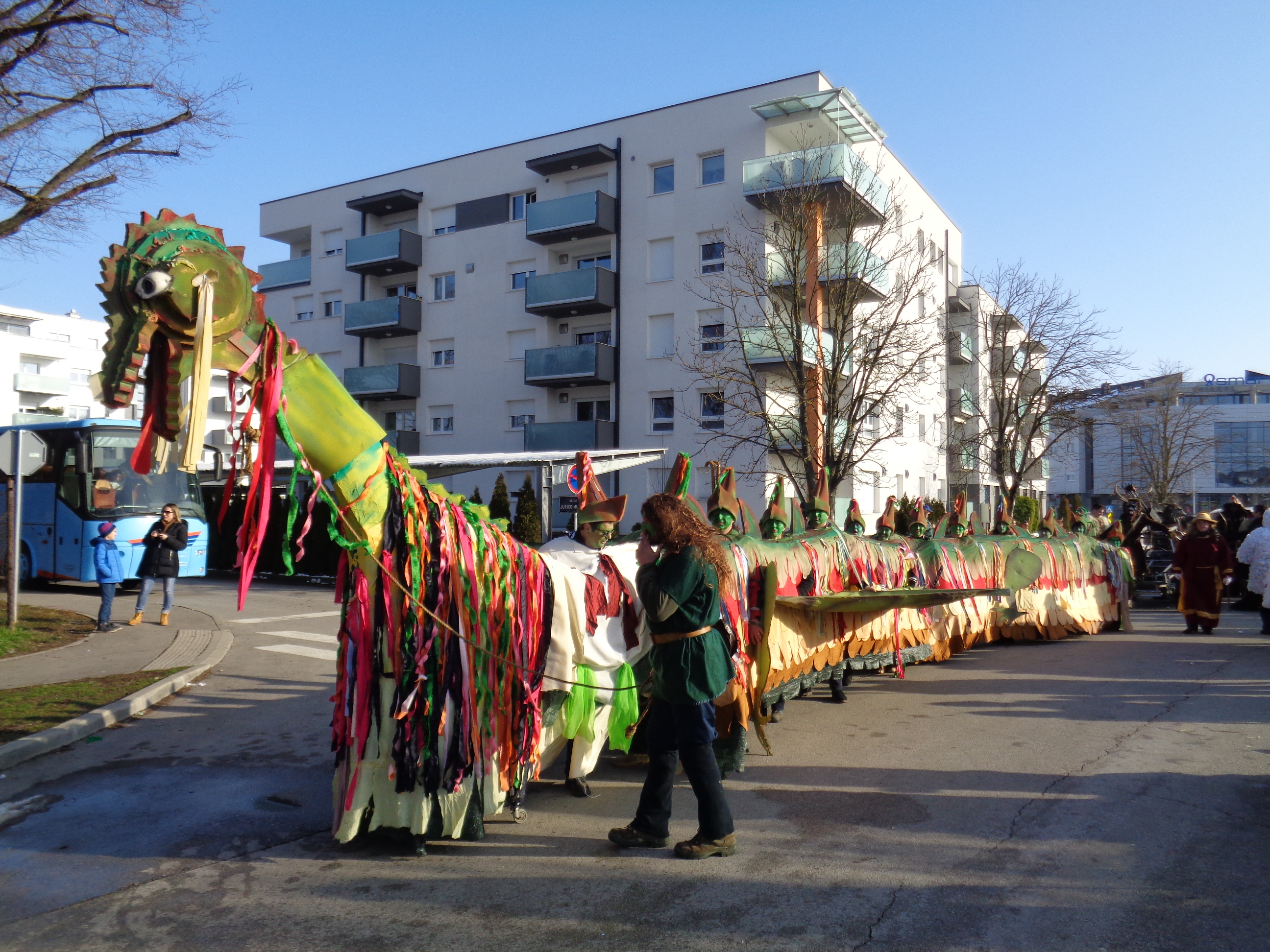 Medjimurje Carnival 2018 (Croatia) - Dragon of Macinec village